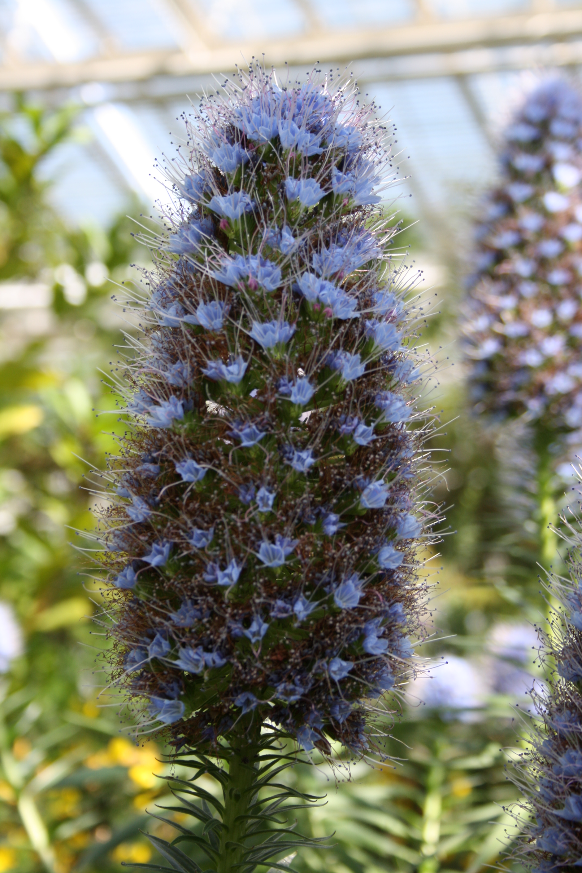 Flower of Echium callithyrsum